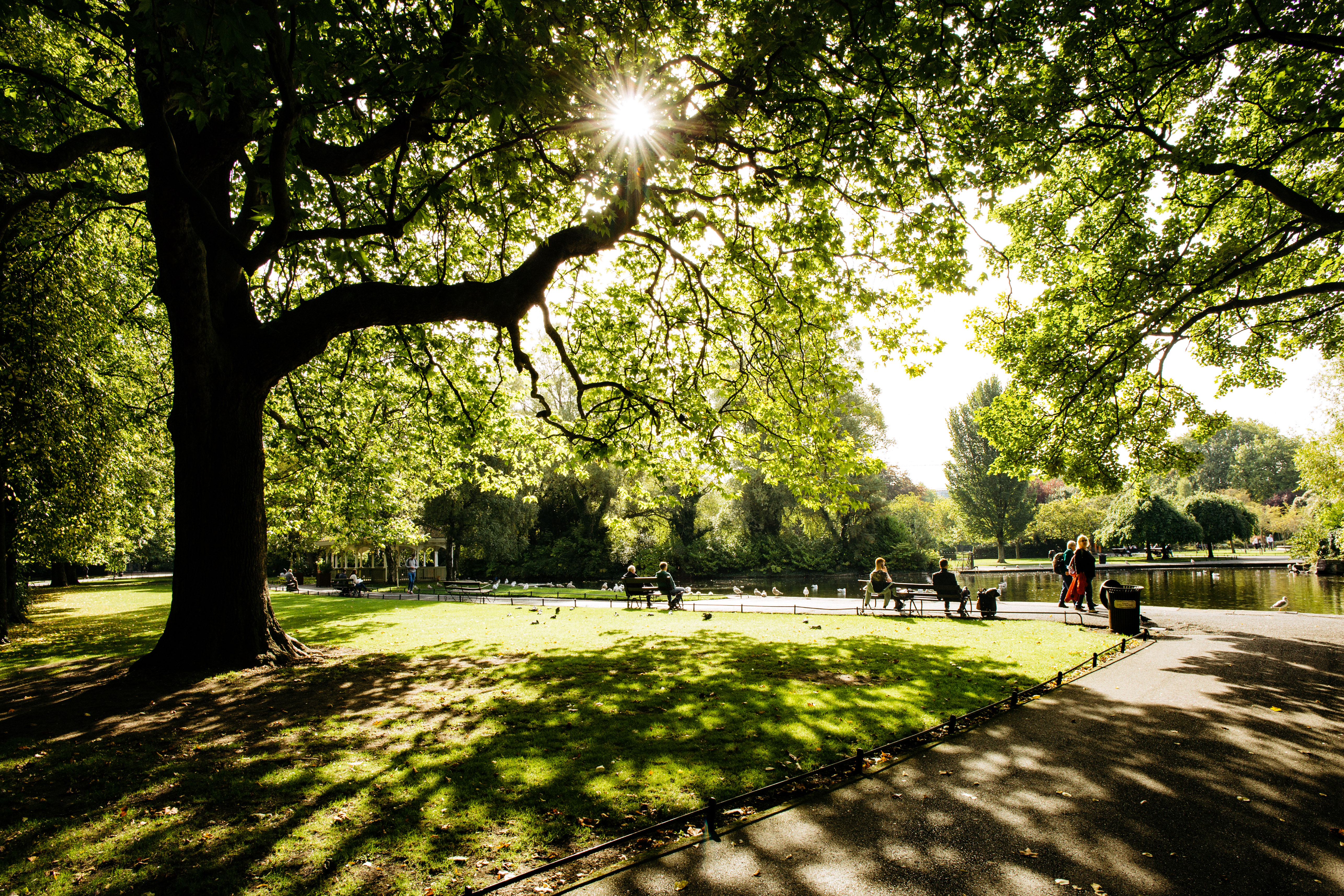 One of the many fine views in St Stephens Green.